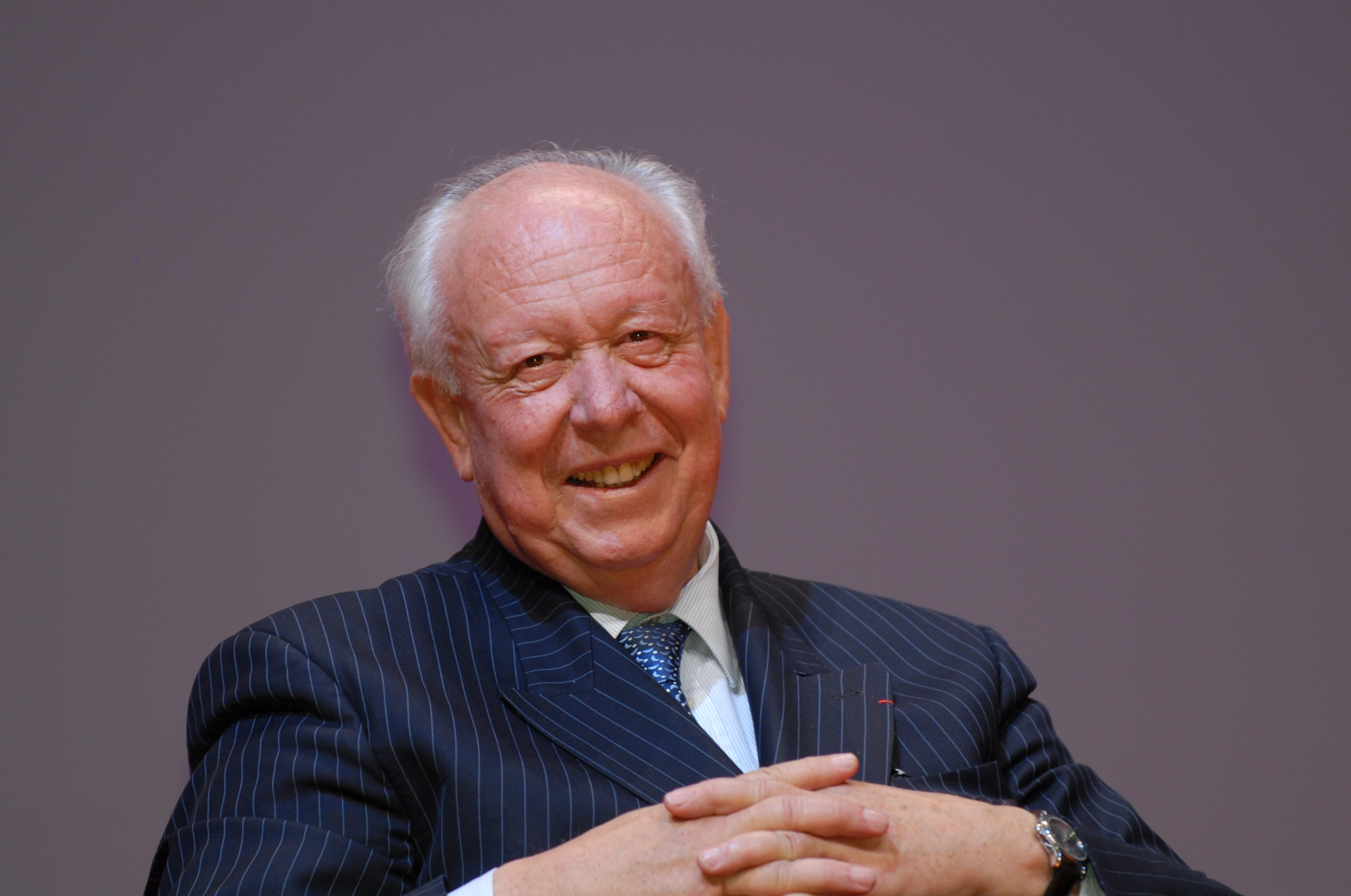 Jean-Claude Gaudin, during the 2008 Municipal Elections, in Marseille, France